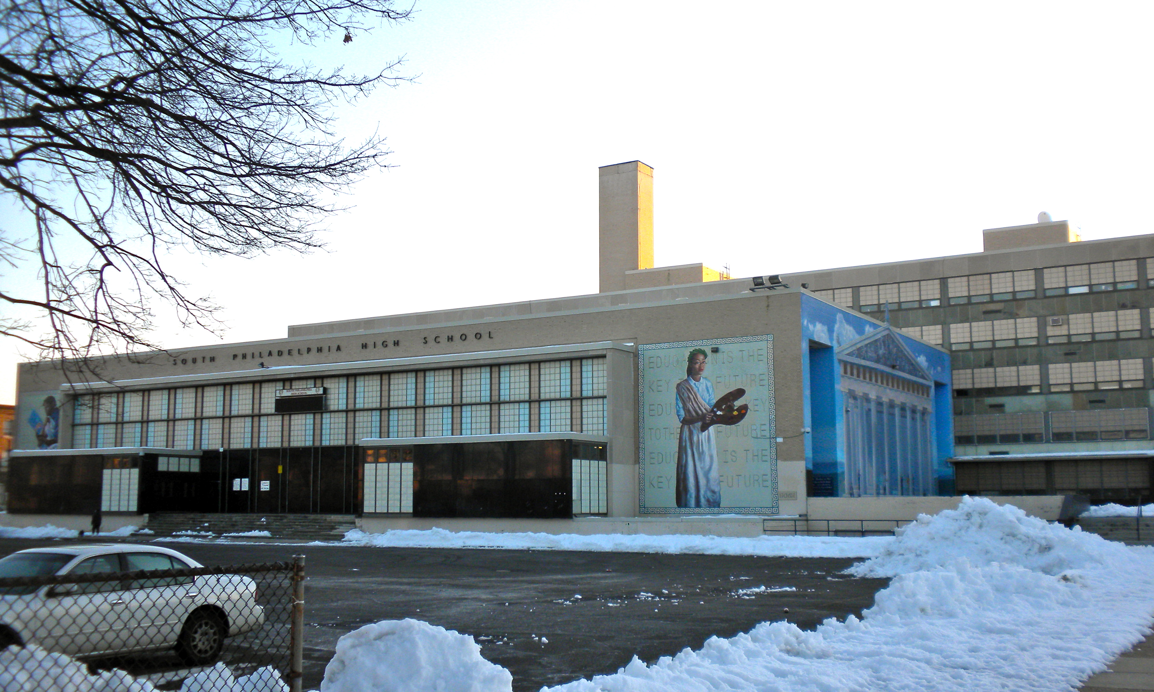 South Philadelphia High School, taken from Broad Street, with snow in the foreground